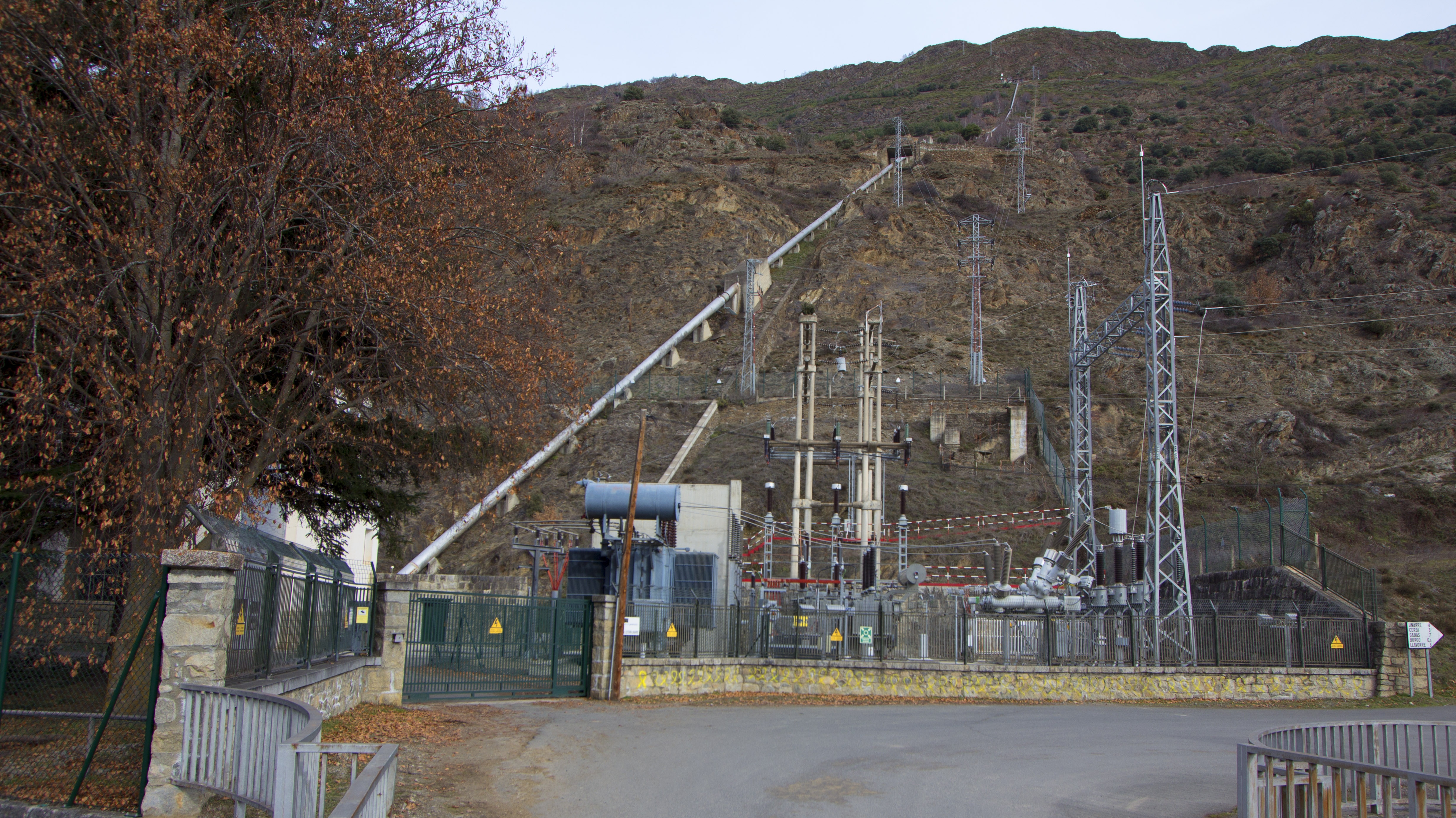 Esterri d'Aneu plant, electrical substation and Unarre hydropower plant penstocks